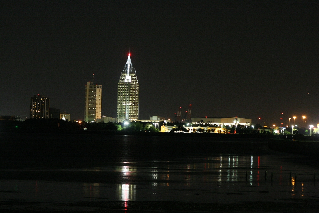 Mobile, Alabama skyline at night from Mobile Bay. Prominent in the center of the image is the RSA Battle House Tower.